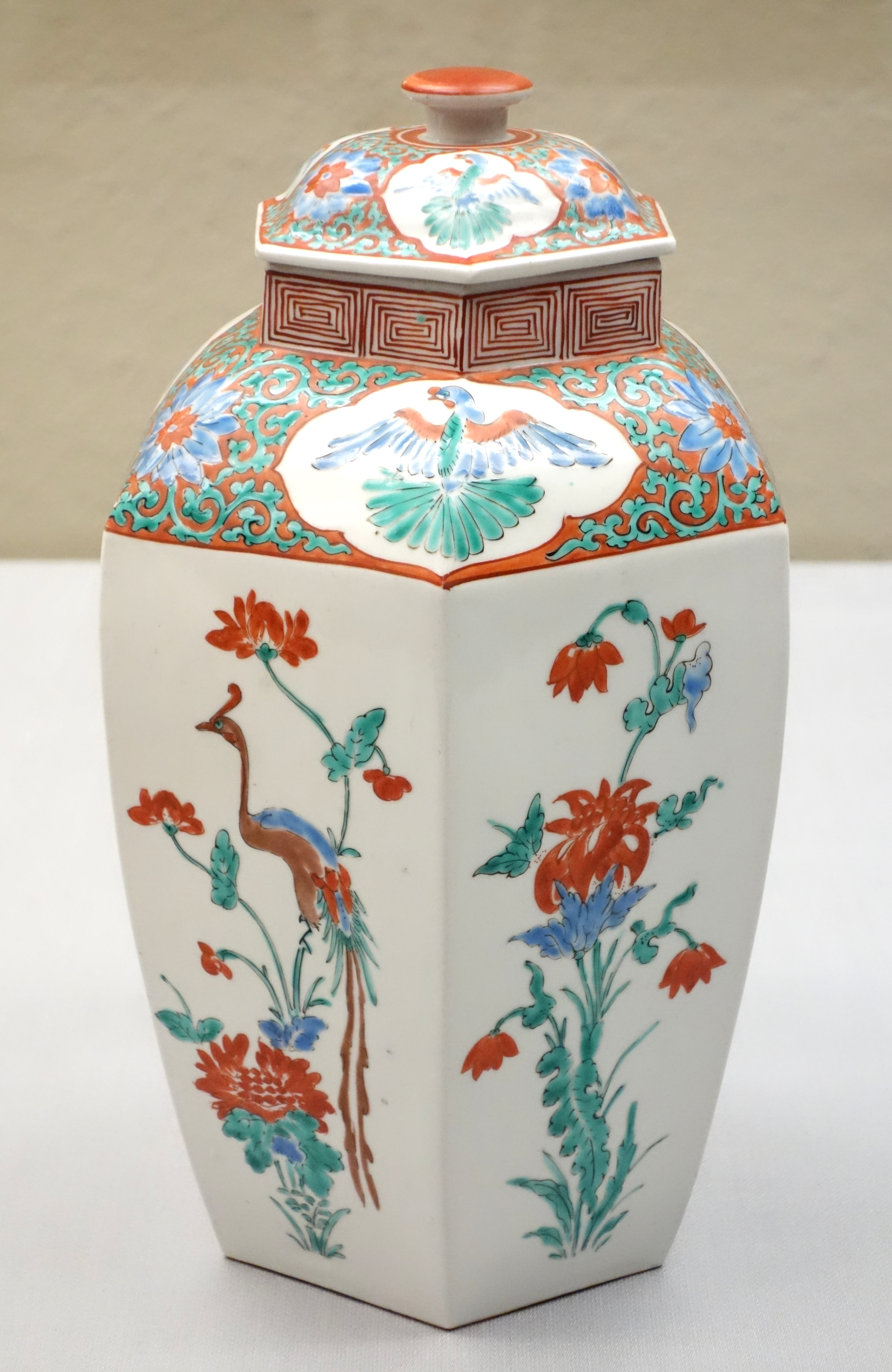 Hexagonal Jar, Imari ware, Kakiemon type, Edo period, 17th century, flowering plant and phoenix design in overglaze enamel. Exhibit in the Tokyo National Museum, Tokyo, Japan. This artwork is old enough so that it is in the public domain.